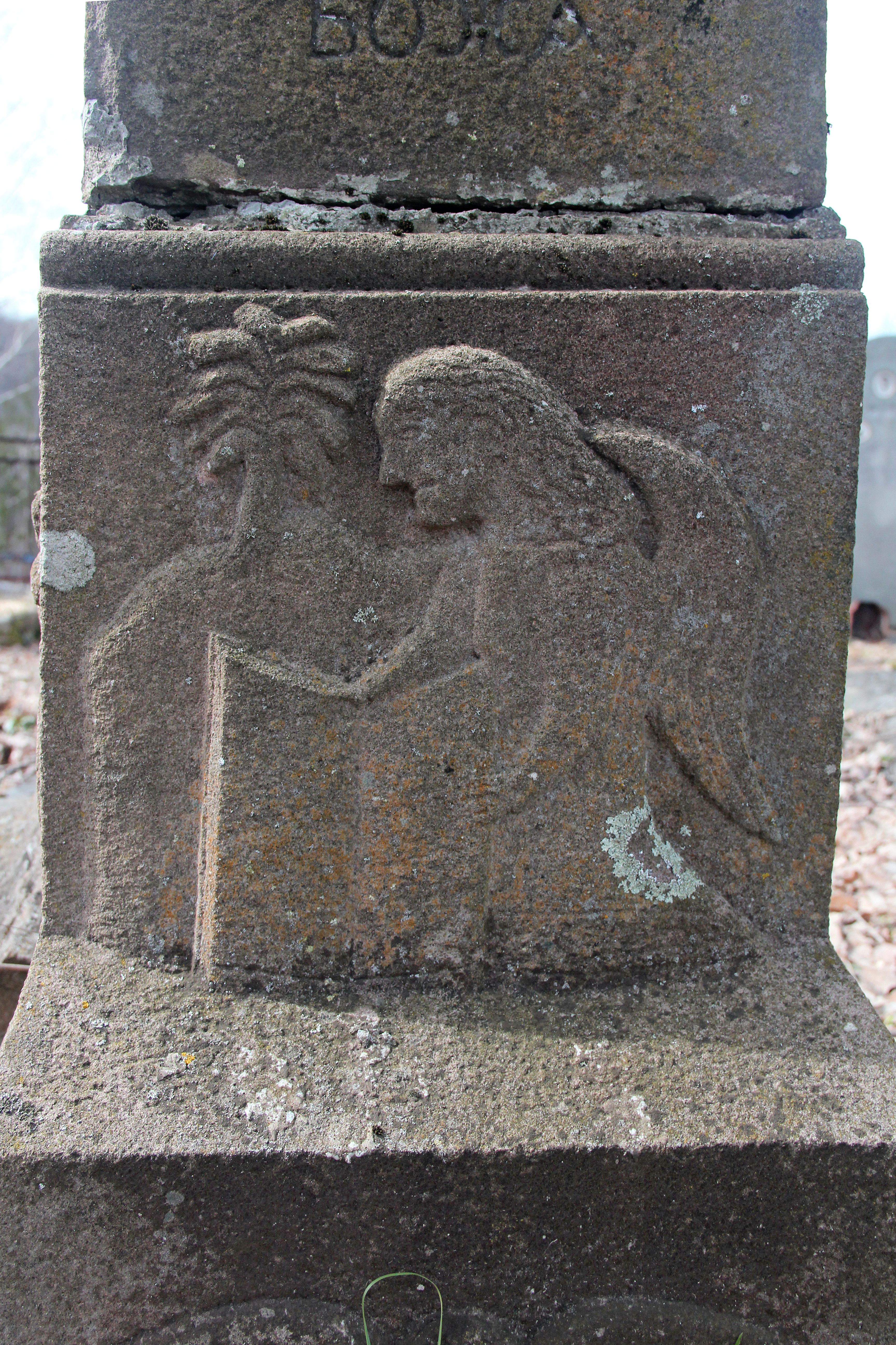 Old gravestones at the cemetery in the village of Bersici (the municipality of Gornji Milanovac), Serbia.